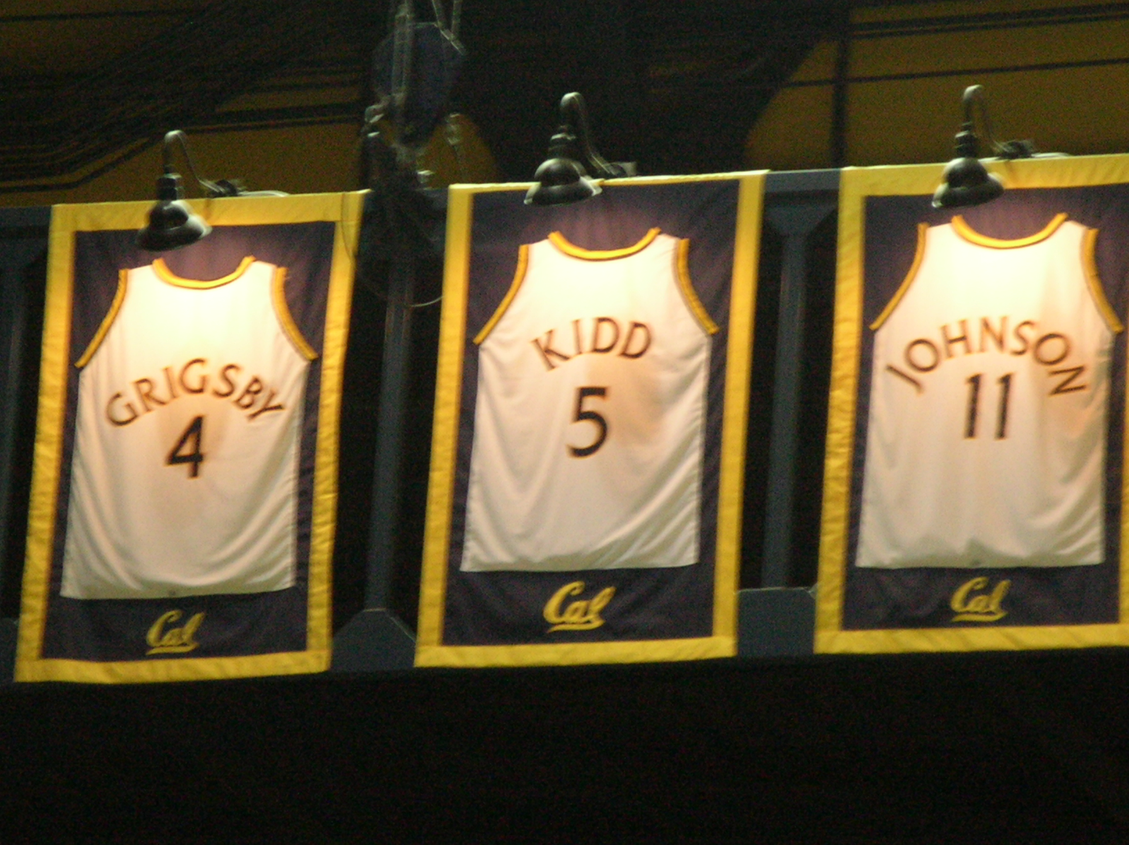 Retired Cal basketball jerseys hanging in Haas Pavilion.